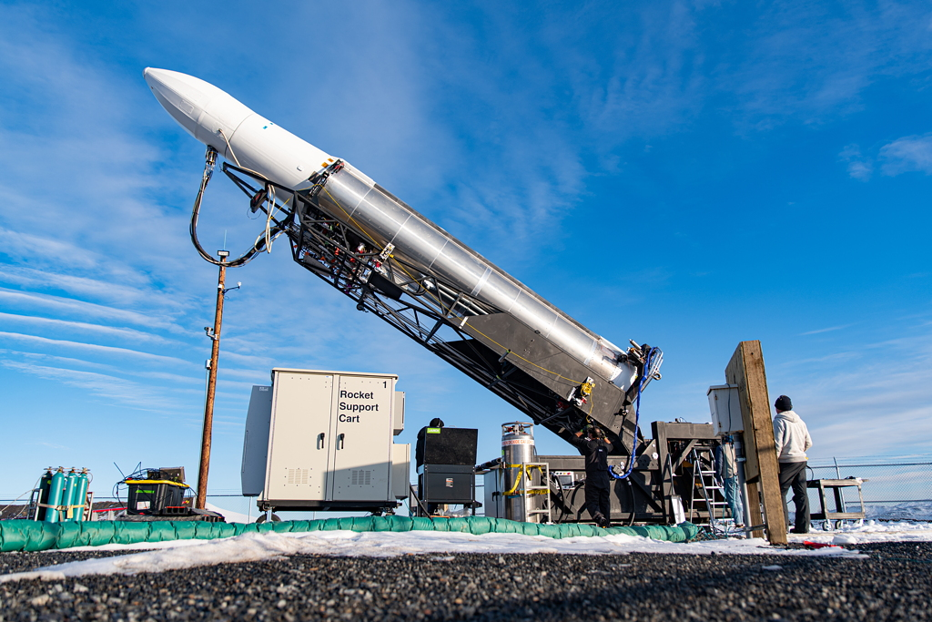 Launch campaign of the first Rocket 3.0 of Astra Space.